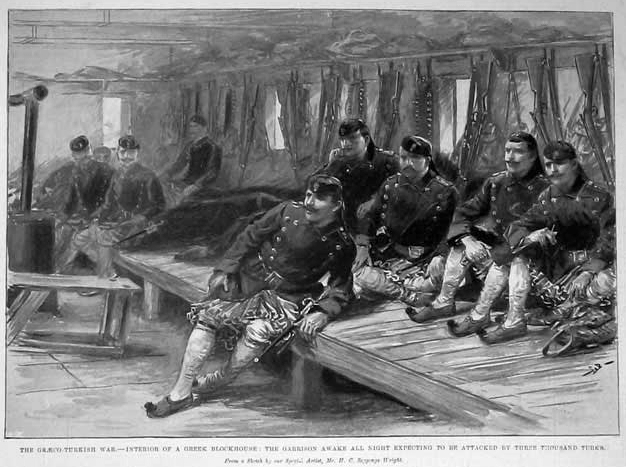 Evzones of the Greek army awaiting a Turkish attack inside a blockhouse during the Greco-Turkish War of 1897